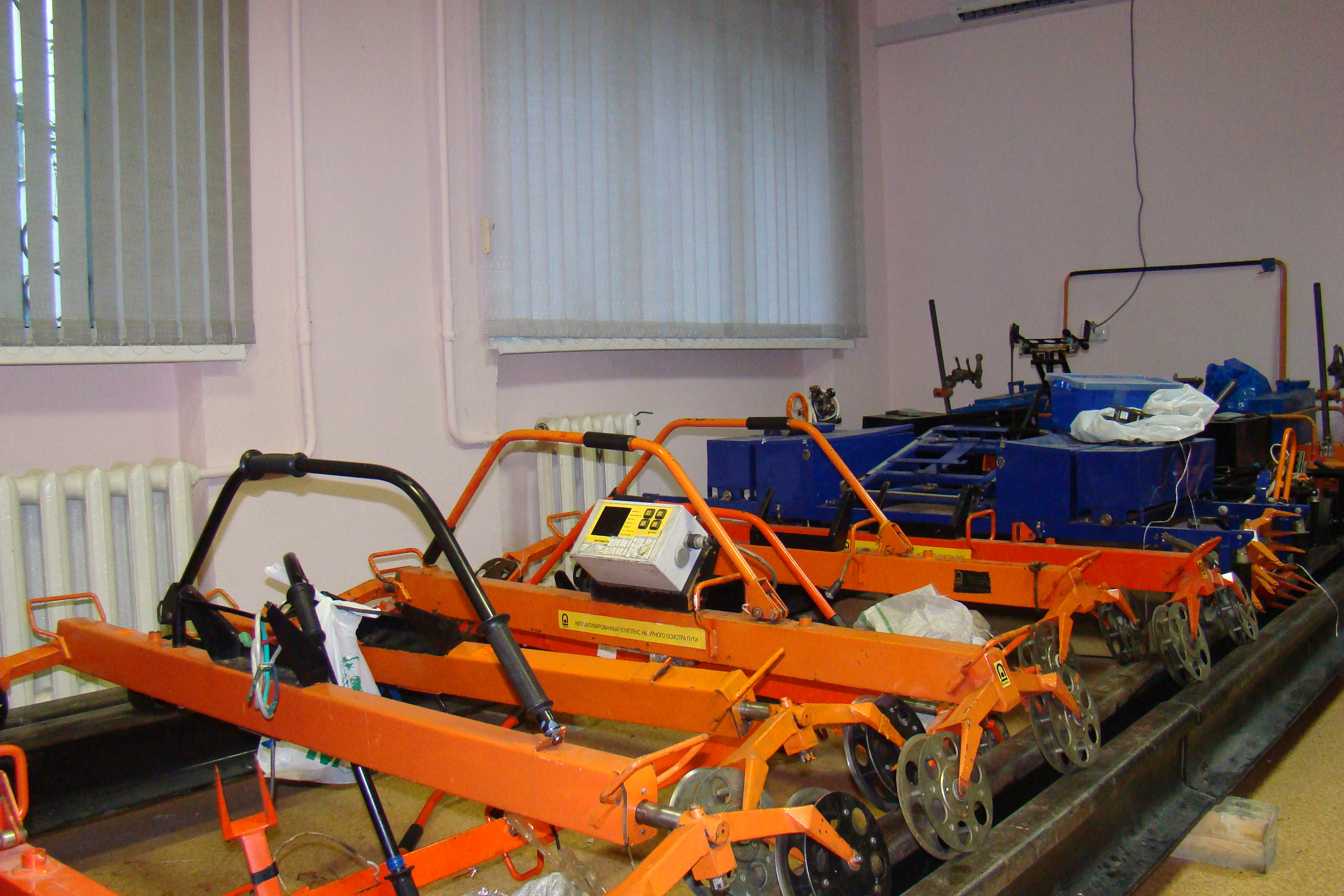 Railway meter